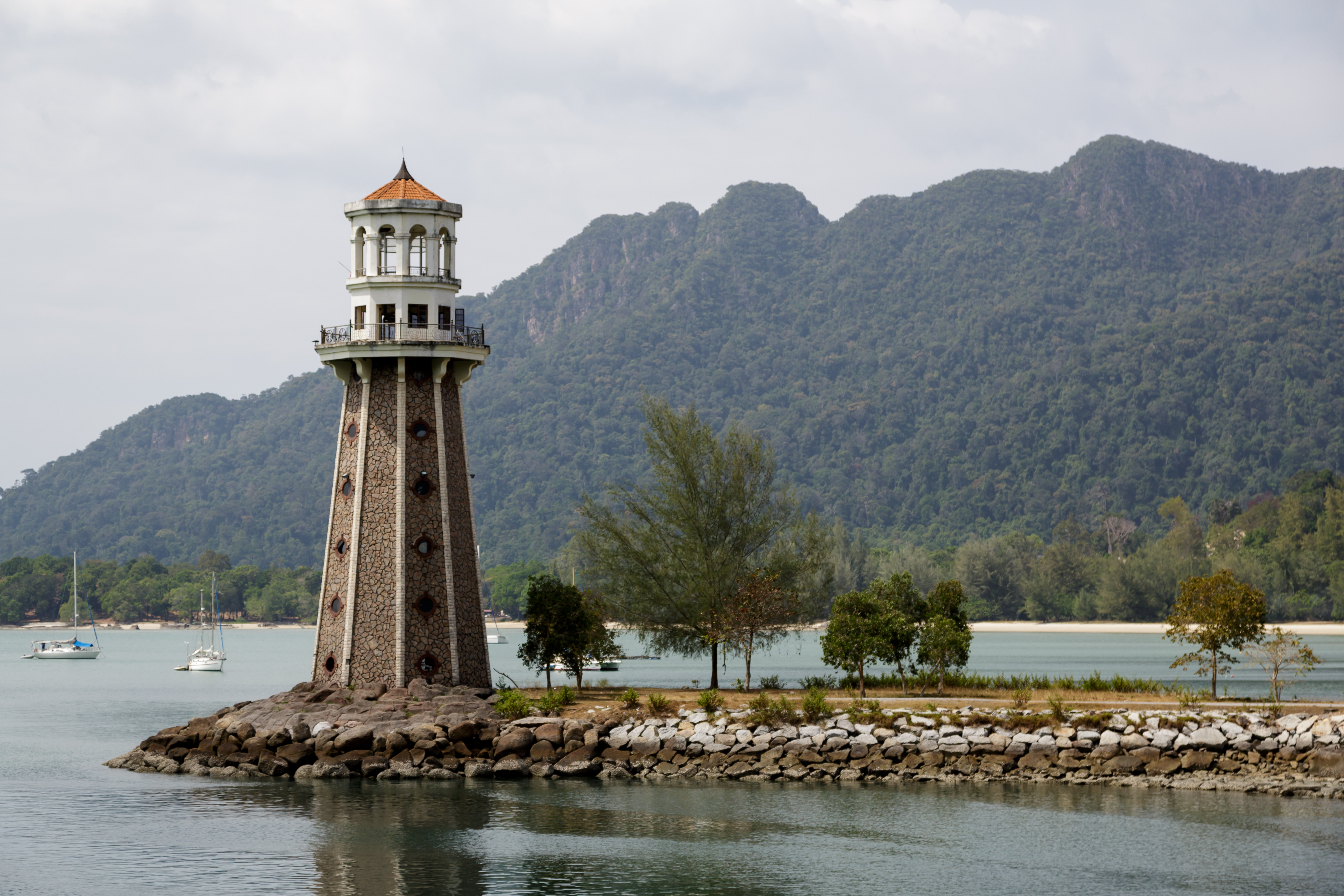 Langkawi, Malaysia: Pantai Kok Lighthouse at Kok Beach